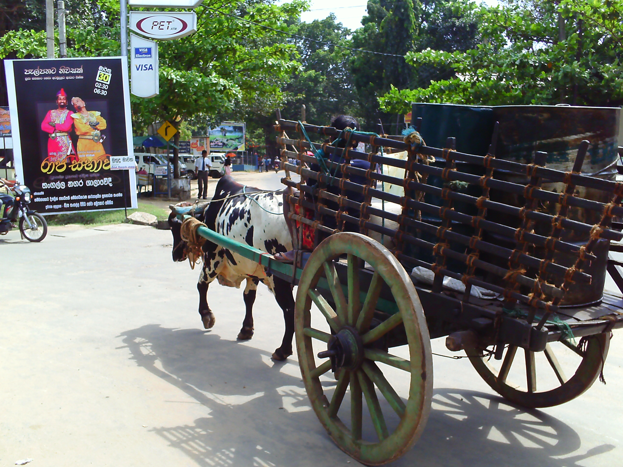 A bullock cart in Tangalle, Sri Lanka, March 2008.